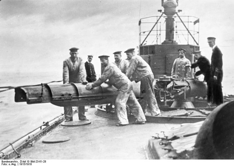 Am Torpedorohr Matrosen am Torpedorohr auf einem Torpedoboot Information added by Wikimedia users.